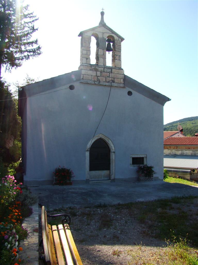 PODGACE SEPT 2009